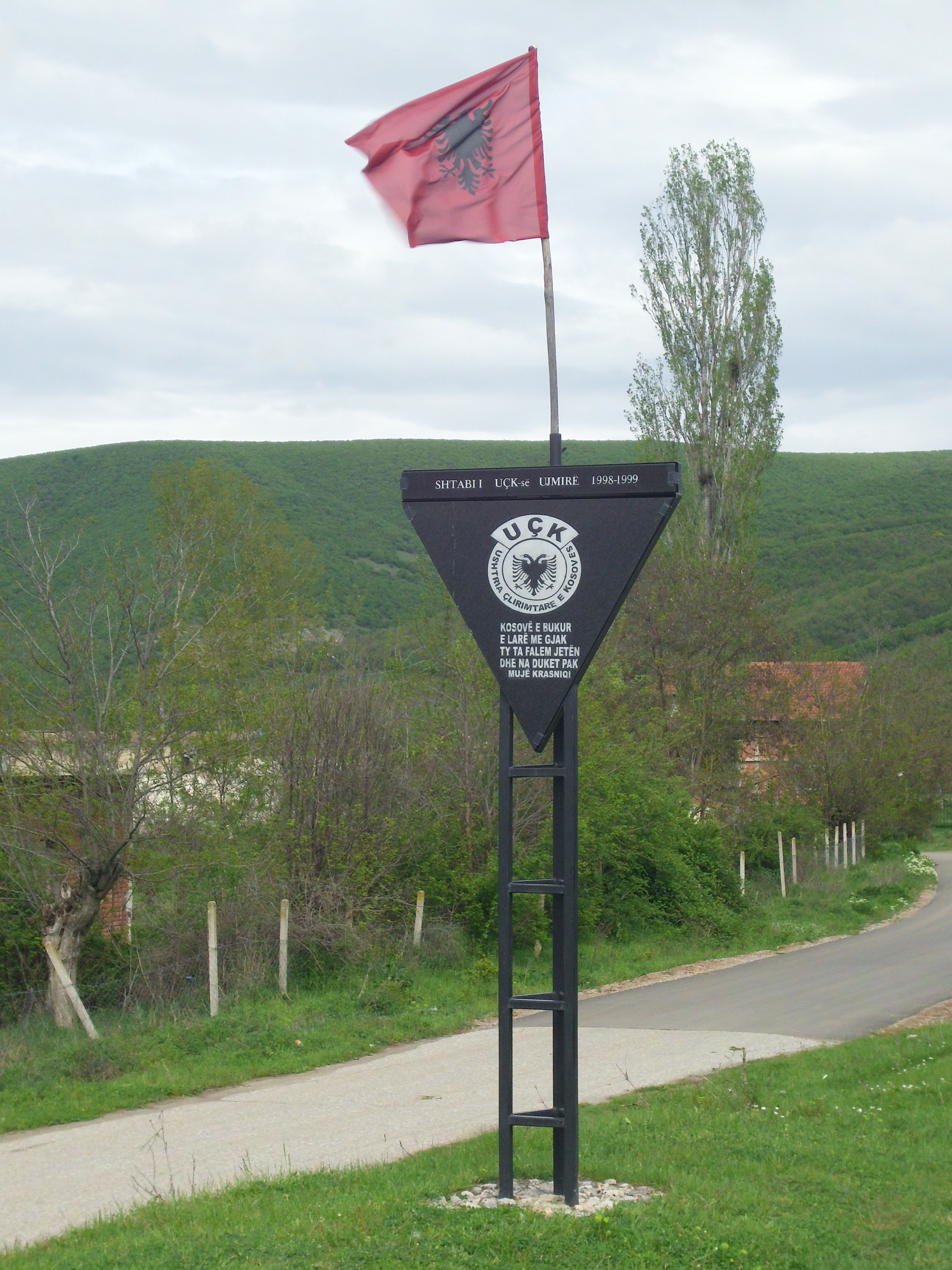 Monument of the Kosovo Liberation army in Ujëmir (formerly Dobra Voda), Kosovo.